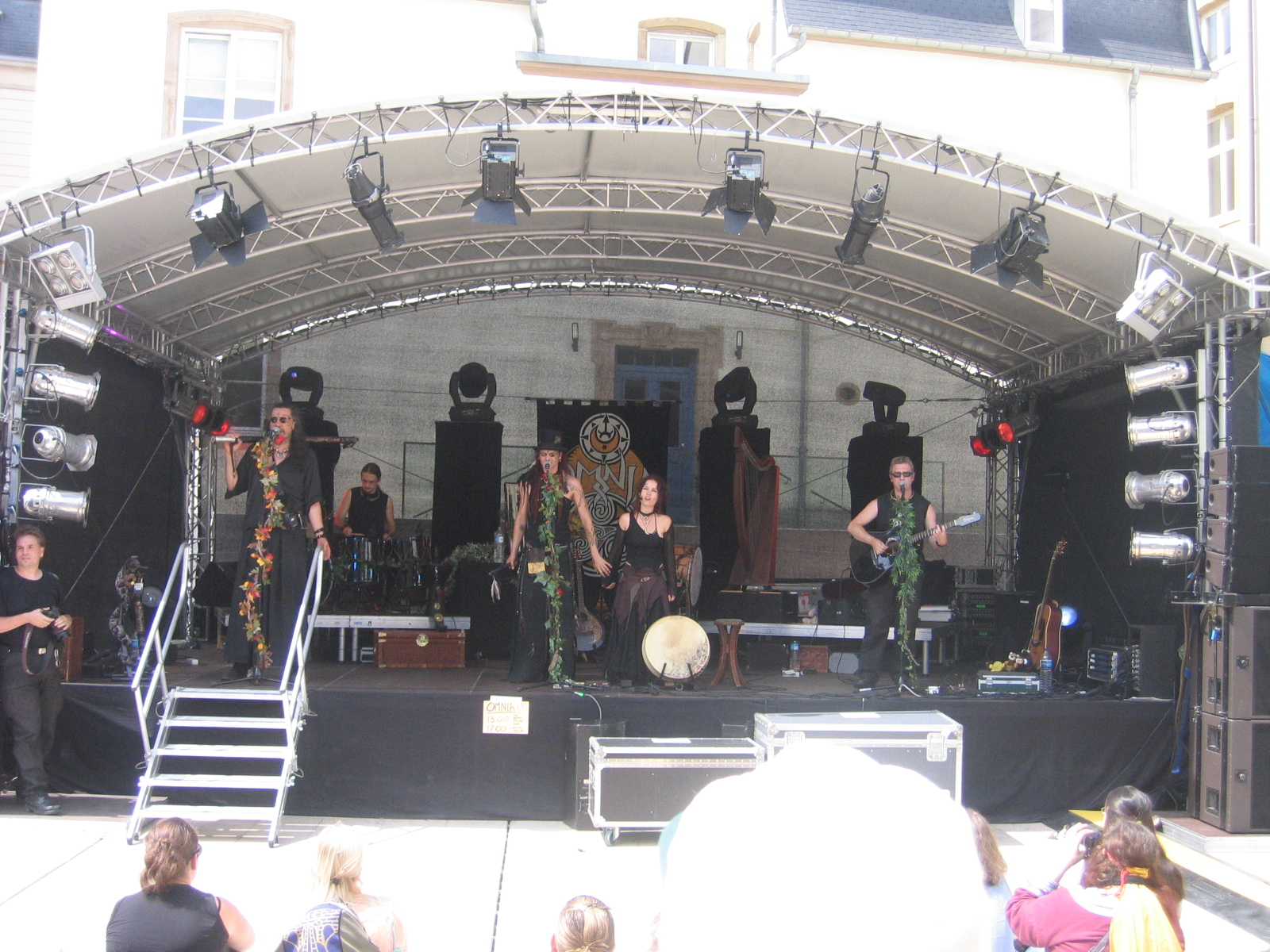 Omnia at Anno Domini 1408 in Luxembourg city